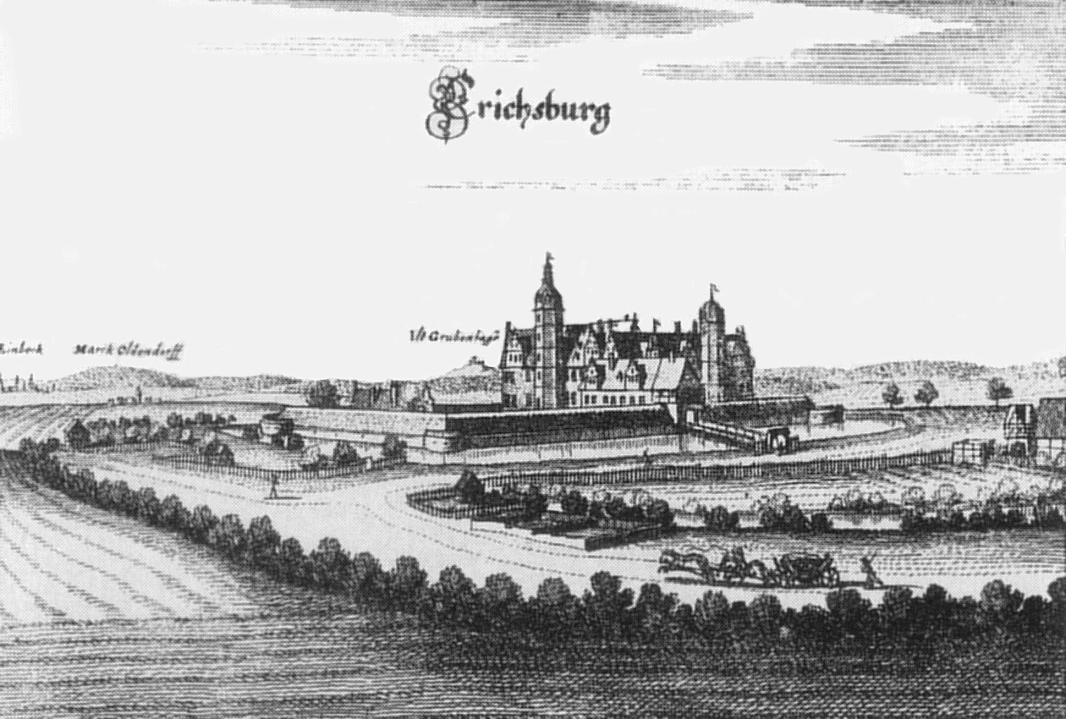 The Erichsburg castle near Dassel in Germany. Copperplate engraving by Matthäus Merian around 1650.